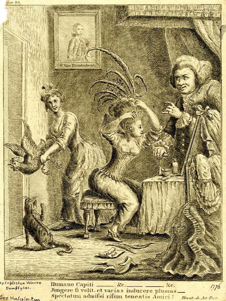 An illustration to Christopher Anstey's An Election Ball (1776) by Copplestone Warre Bampfylde